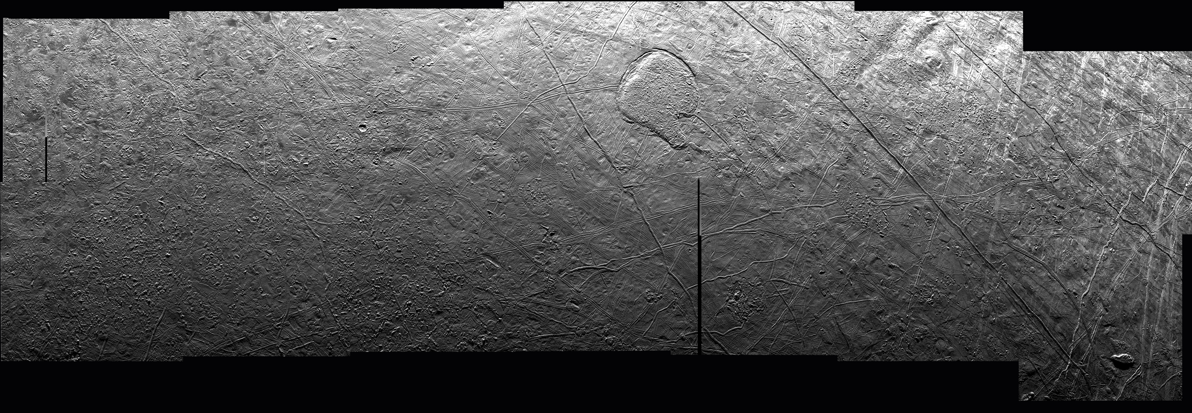 The area of Tara Regio on Europa containing the Murias Chaos (the "mitten" feature"). Image data is from Galileo's E15 flyby on May 31, 1998. Image Credit: NASA/JPL/Processed by Kevin M. Gill